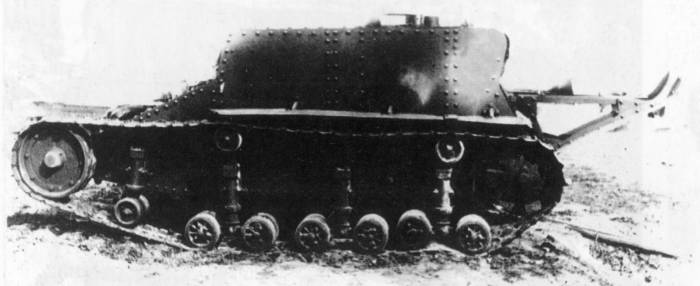 Soviet experimental tankette T-23.